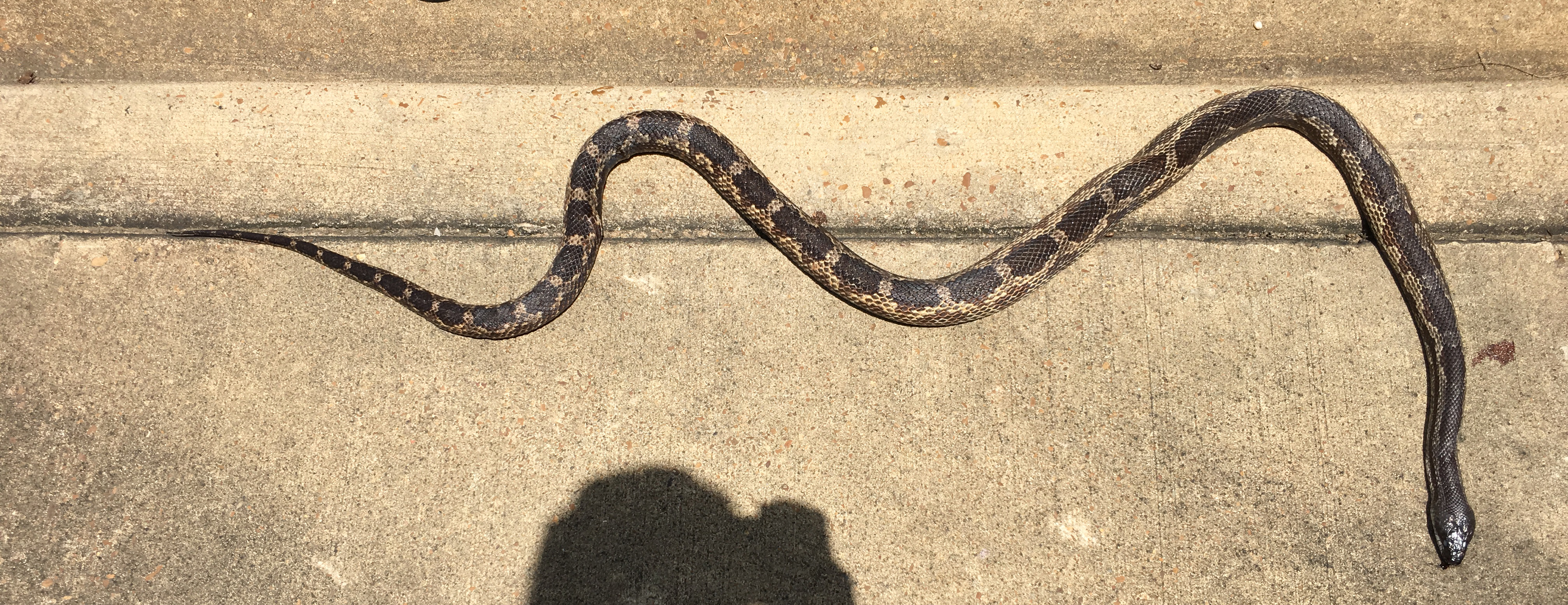 A dead Pantherophis obsoletus (rat snake) found as roadkill on Lafayette County Road 202 near the University of Mississippi Field Station.